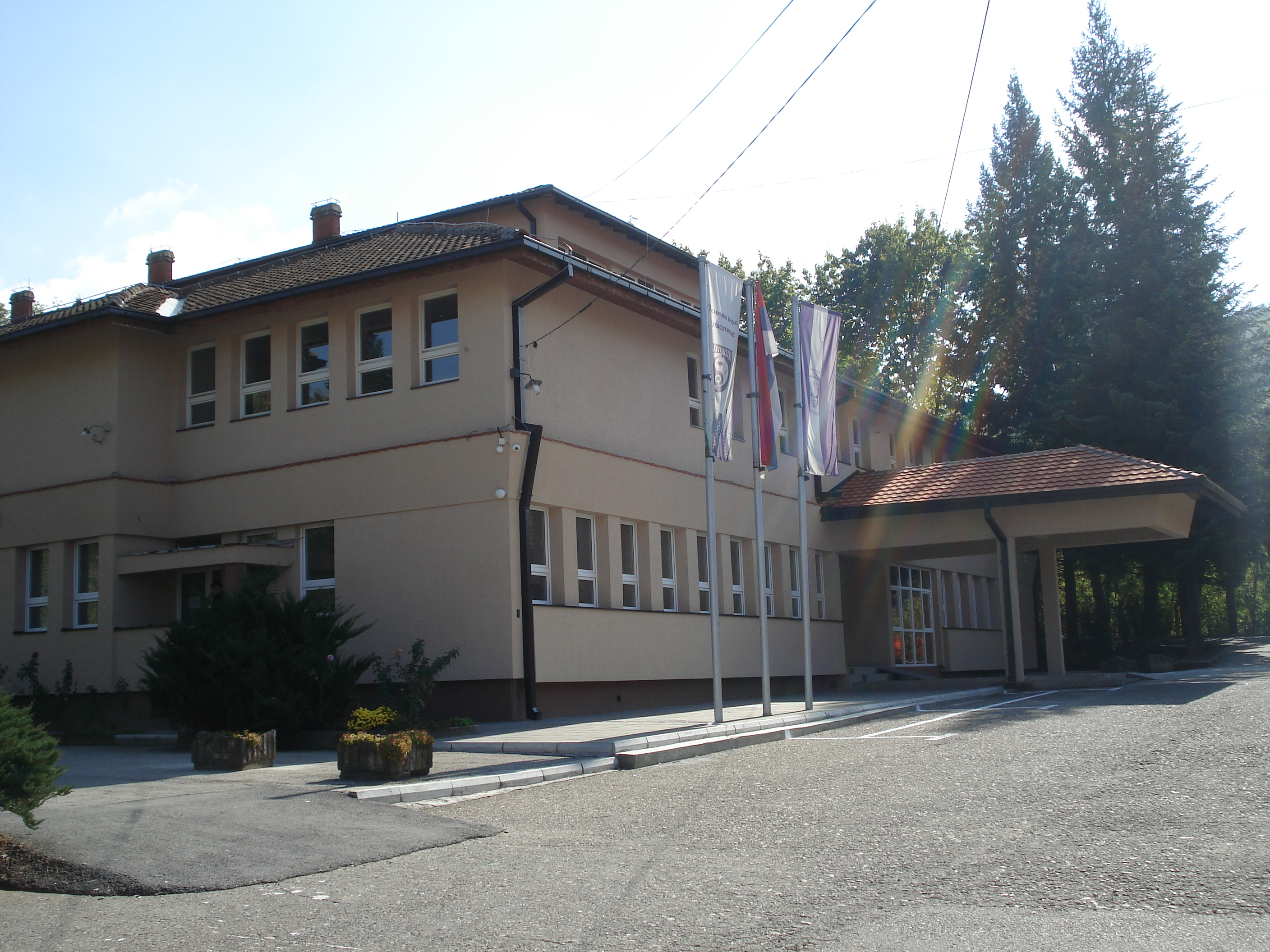 Gimnazija „Stevan Jakovljevic", 30